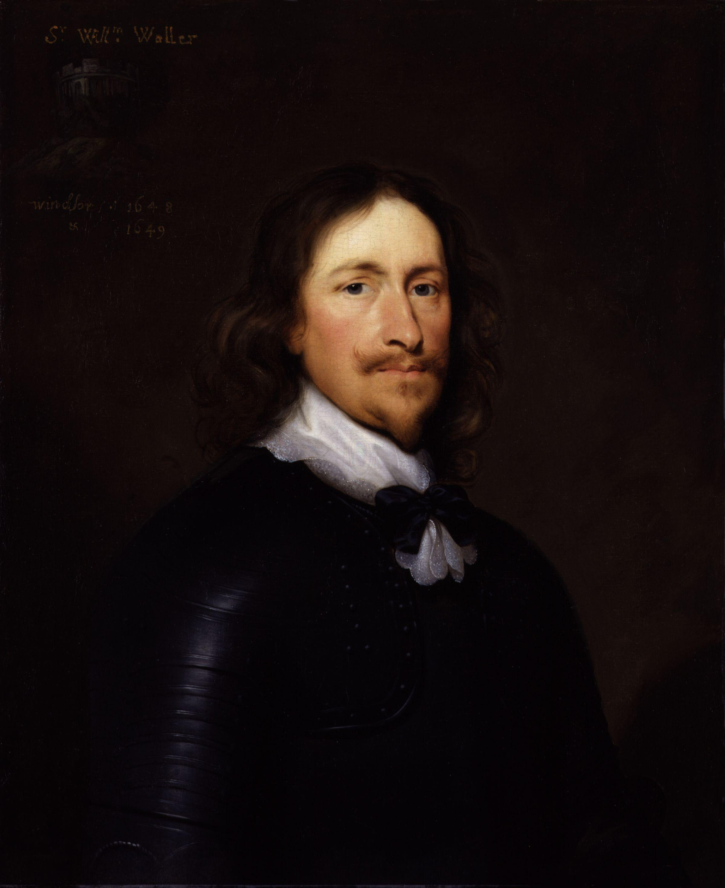 All images in this batch have been confirmed as author died before 1939 according to the official death date listed by the NPG.